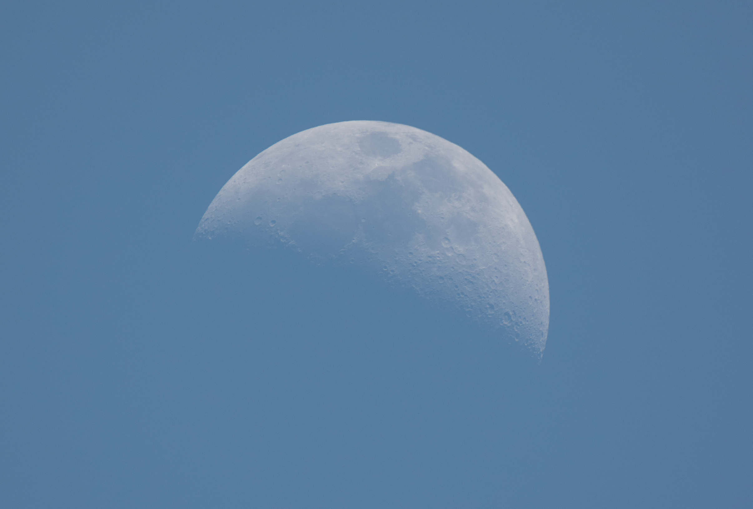 Cresent moon in daylight from near Kottayam, Kerala, India